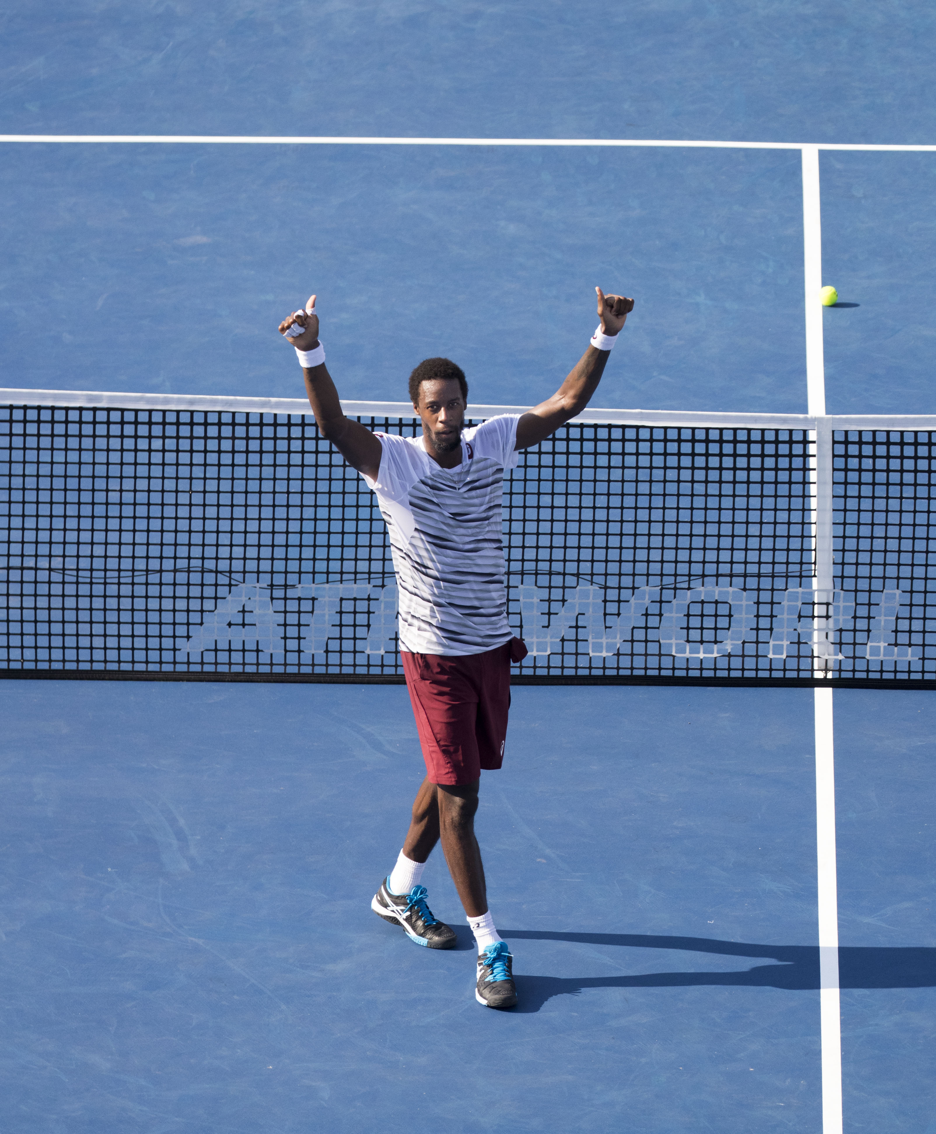 2016 Citi Open Finals 7/24/16